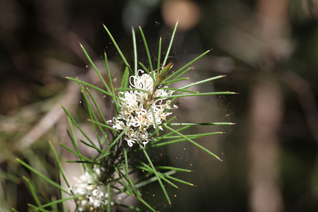 Silky Needle Bush - Hakea sericea